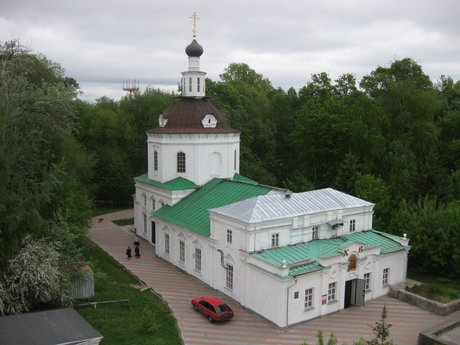 Sts. Peter & Paul Church in Nizhny Novgorod at the former Sts. Peter & Paul Cemetery, now Kulibin Park in Nyzhny Novgorod